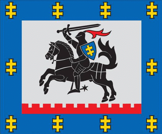 Flag of Panevėžys County, Lithuania